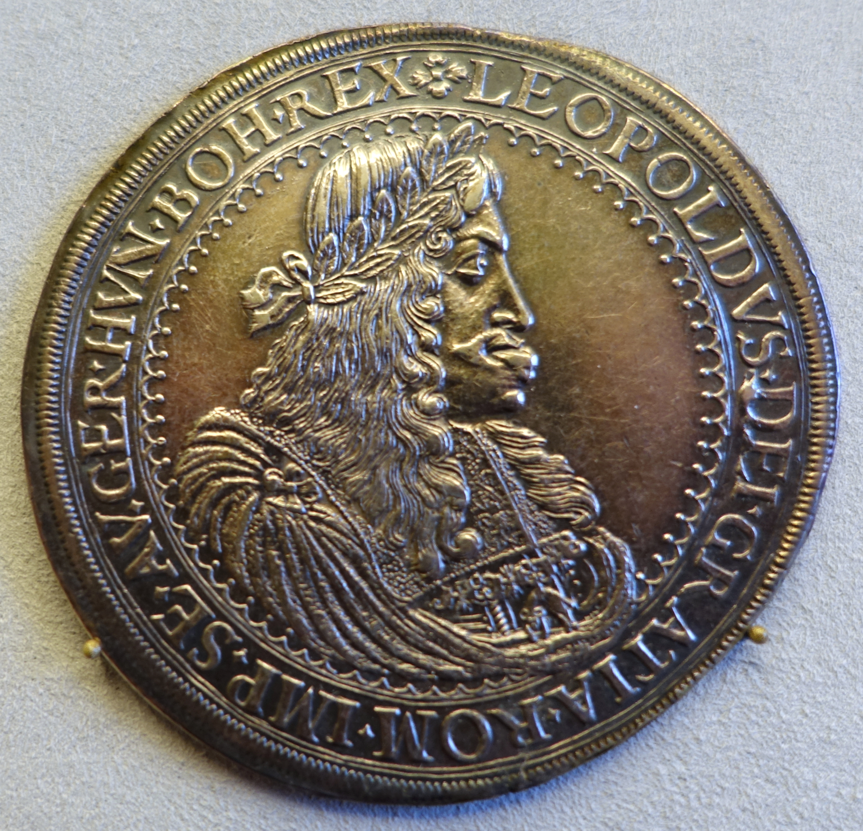 Exhibit in the Bode-Museum, Berlin, Germany. This work is in the public domain because the artist died more than 100 years ago.